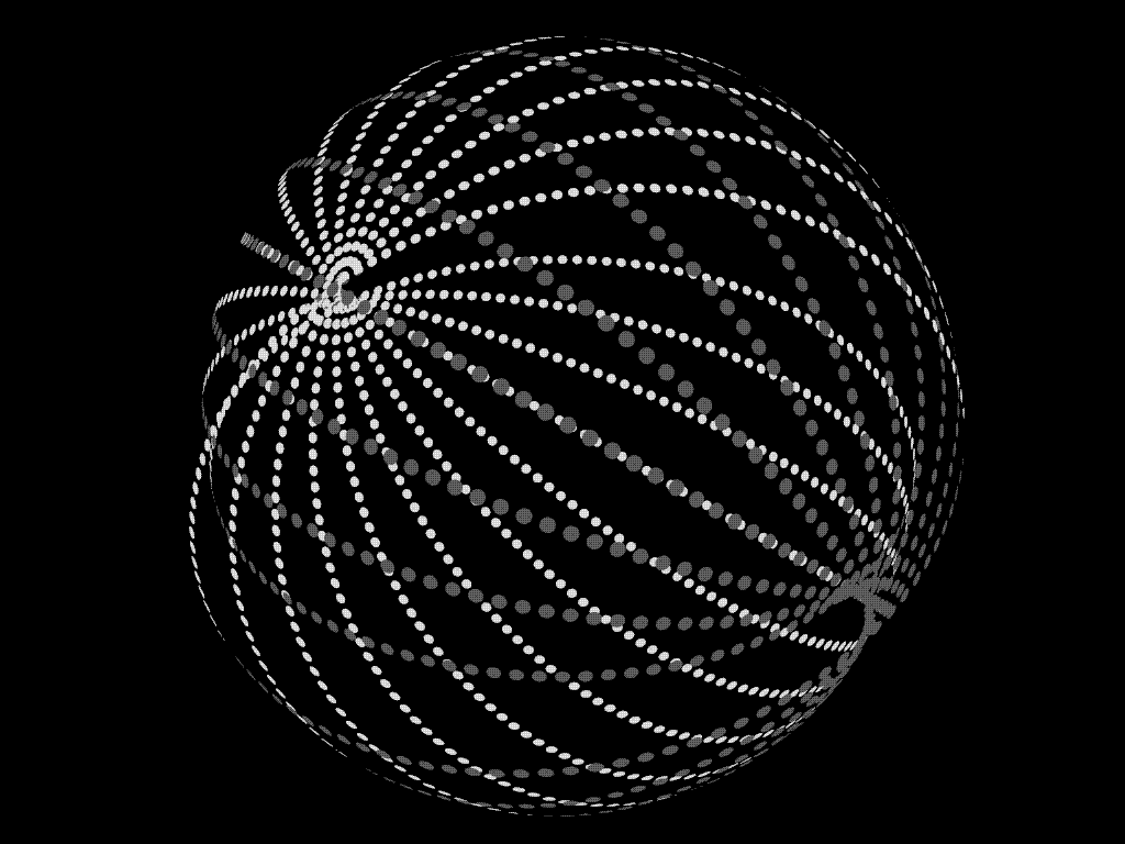 An illustration of a relatively simple arrangement of multiple Dyson rings in a more complex form of the Dyson swarm. To scale. Sun is accurately colored according to spectral type. Ring orbital radii are spaced 1.5 × 107 km from one another, although the average orbital radius is 1 AU. Collectors are 1.0 × 107 km in diameter, or ~25 times the distance between the Earth and the Moon. Collectors are spaced 3° from midpoint to midpoint, around the orbital circle. Camera perspective is from a point ~2.8 AU from the Sun. Rings are rotated 15° relative to one another, around a common axis of rotation.